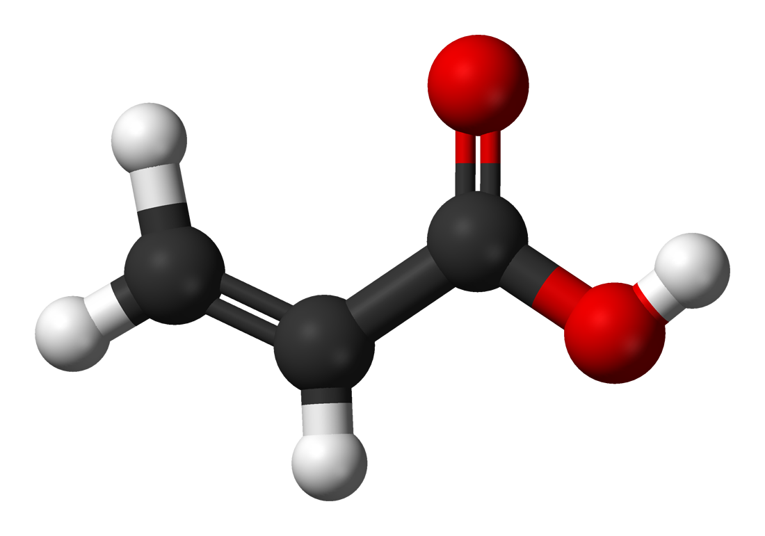 Ball-and-stick model of the acrylic acid molecule, C3H4O2. X-ray crystallographic data from Acta Cryst. (1999). C55, IUC9900006. Model constructed in CrystalMaker 8.1. Image generated in Accelrys DS Visualizer.